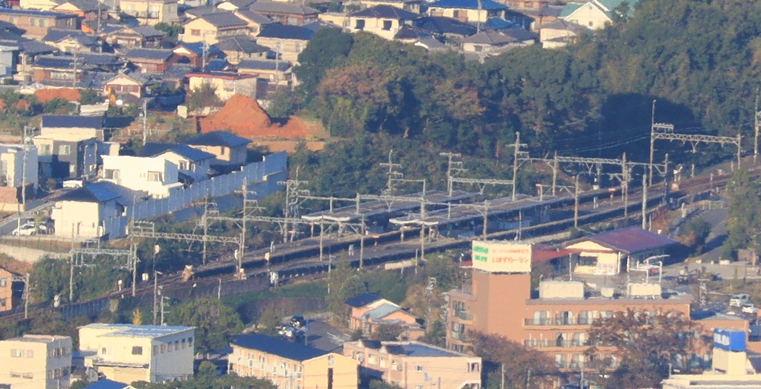 Isuzugawa Station on Toba Line of Kintetsu Railway seen from Mount Asama in Ise, Mie Prefecture, Japan.